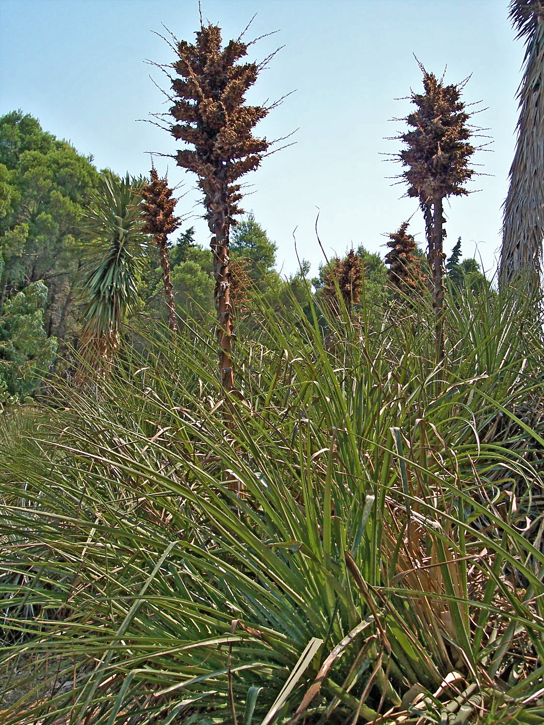 Species Puya chilensis Genus Puya Familia Bromeliaceae Location Botanical Garden on Lokrum isle (Croatia)